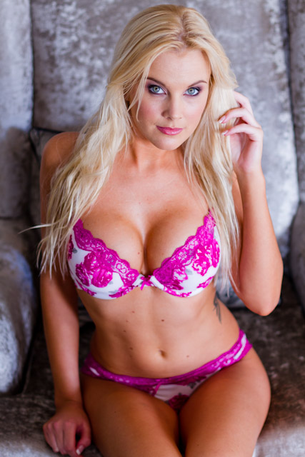 My photoshoot, owned photo taken myself.